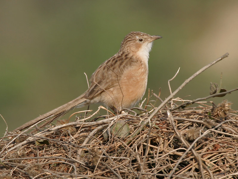 Common Babbler Turdoides caudata at Hodal, Faridabad, Haryana, India.